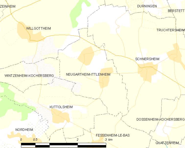 Map of French municipality